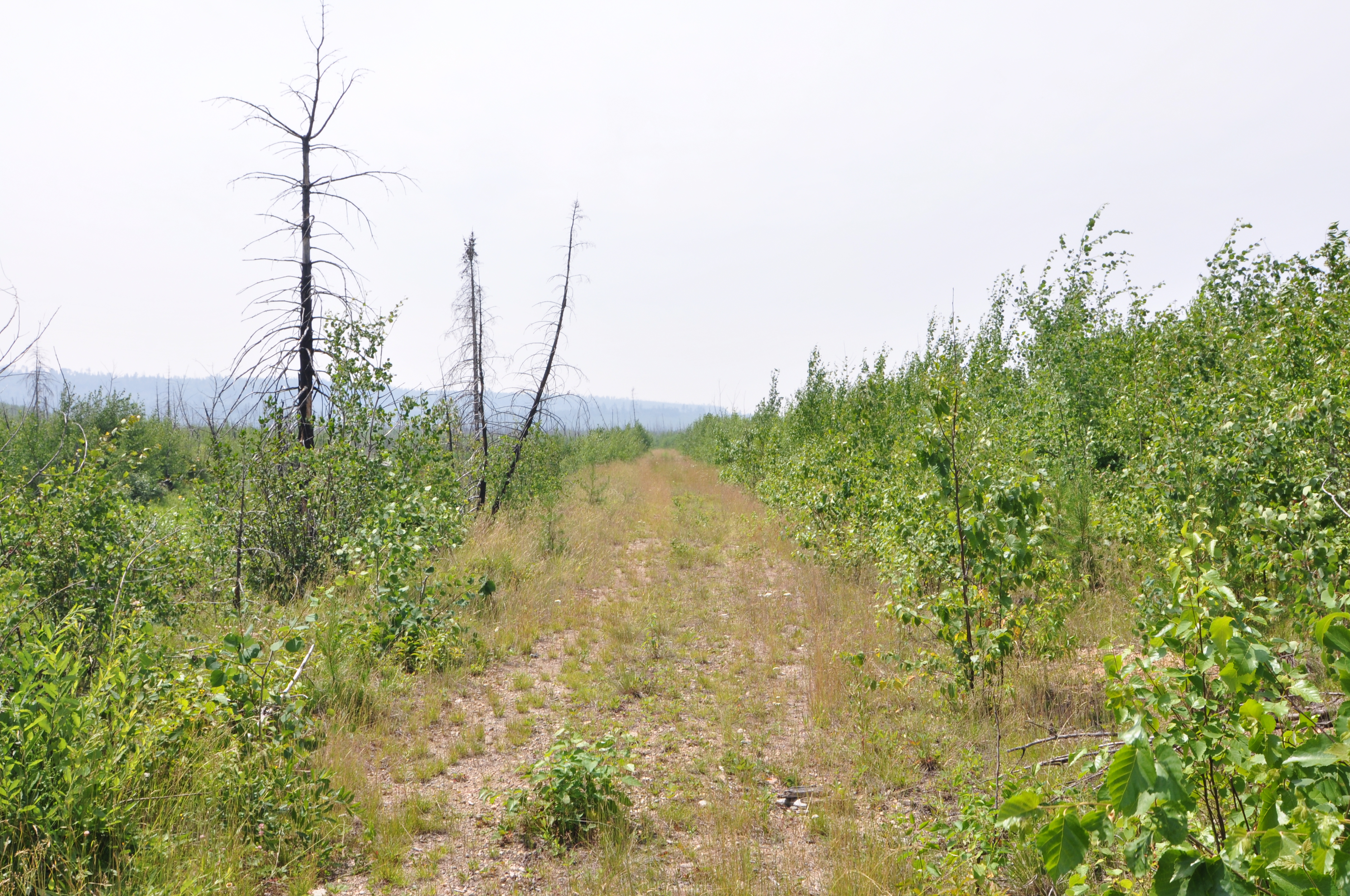 Photograph of the remains of the railway siding located at Leeblain, Ontario.